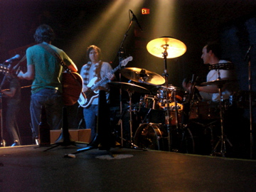 Canadian band Jon and Roy playing a gig at Richard's on Richards, Vancouver, BC.